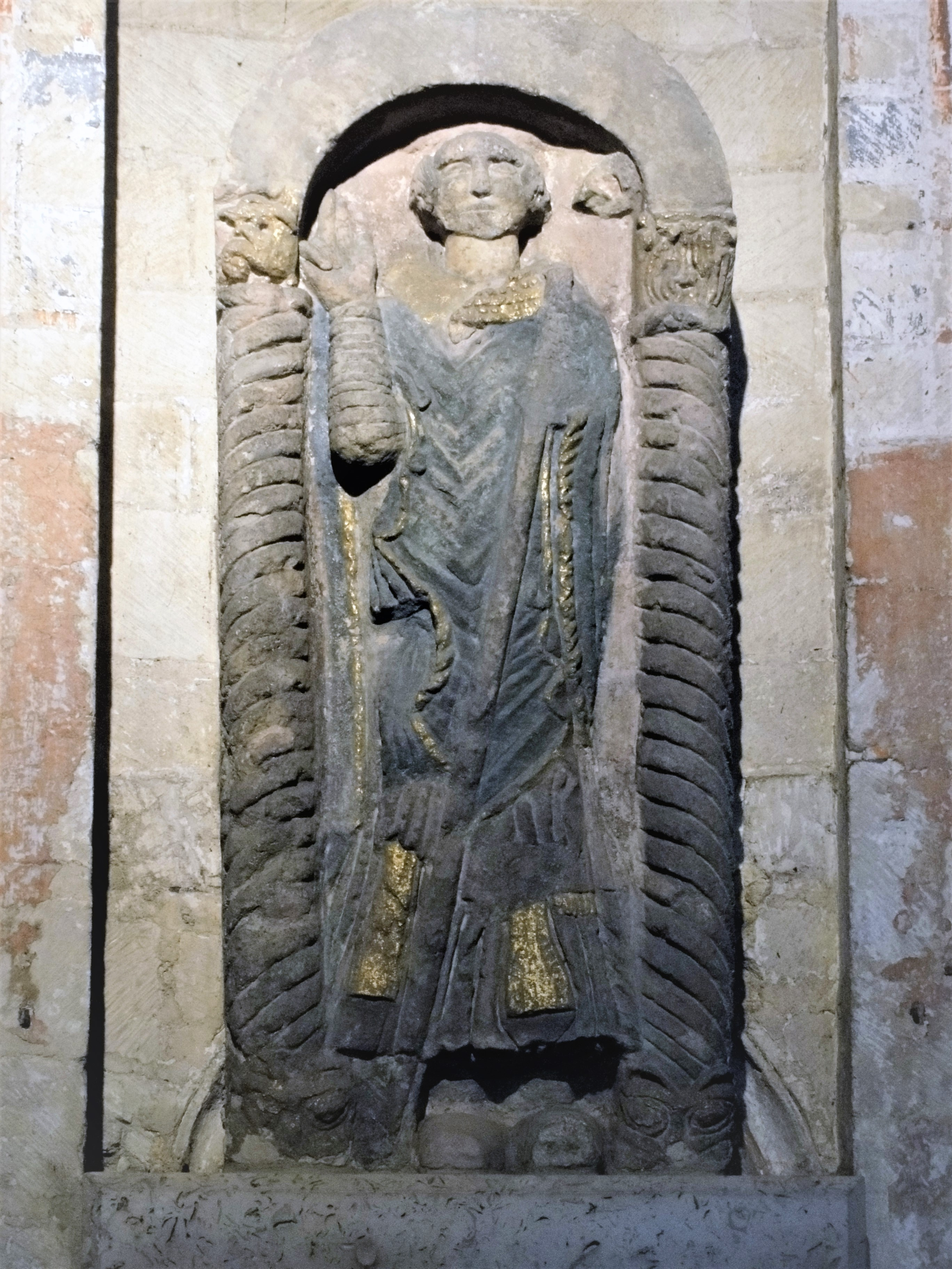 Saint Felix - Statue in Norwich Cathedral, once thought to be Bishop Herbert de Losinga and now identified as St. Felix who brought Christianity to East Anglia.